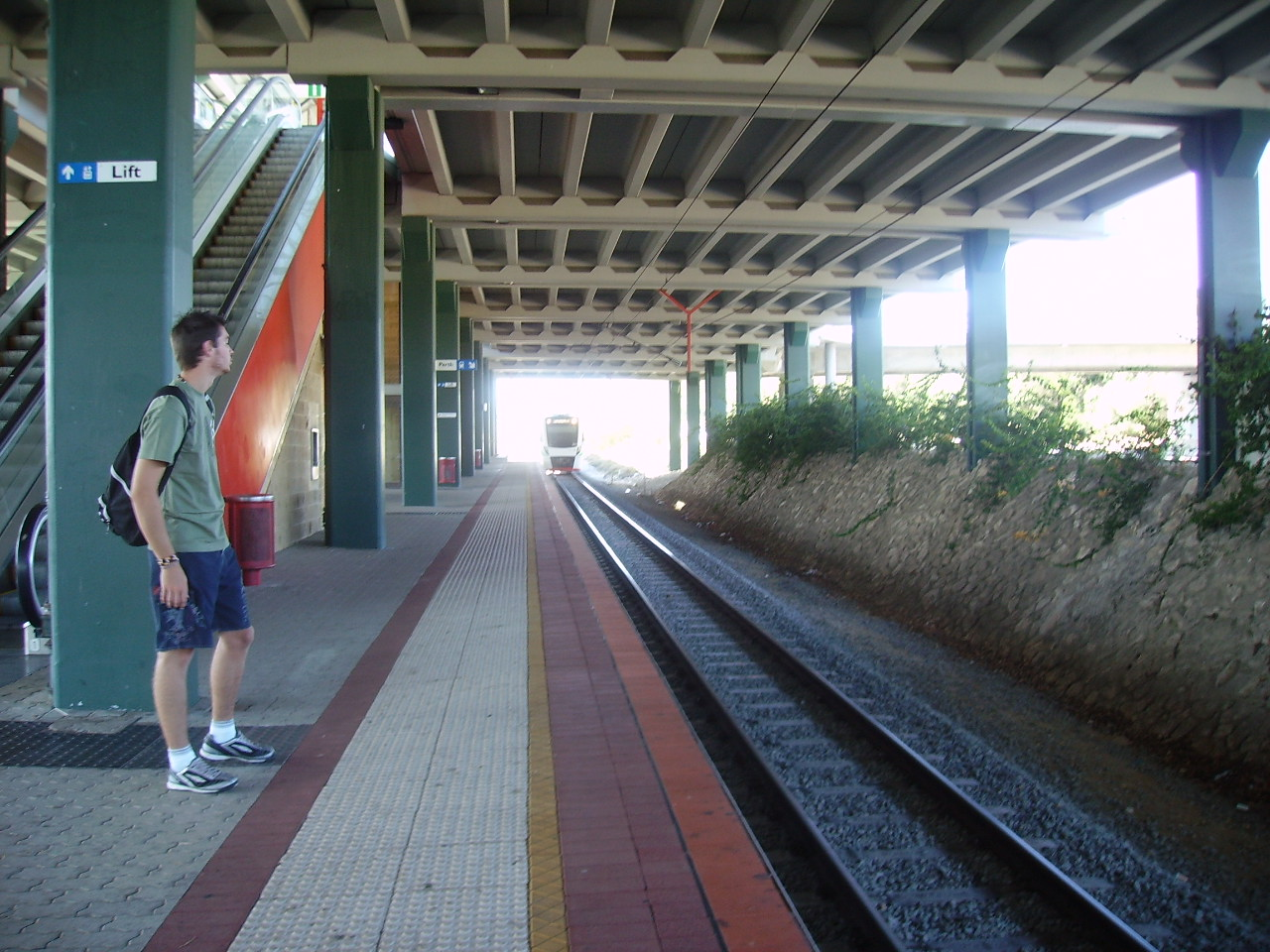 A B-Series Transperth train approaches Warwick train station, Perth bound.